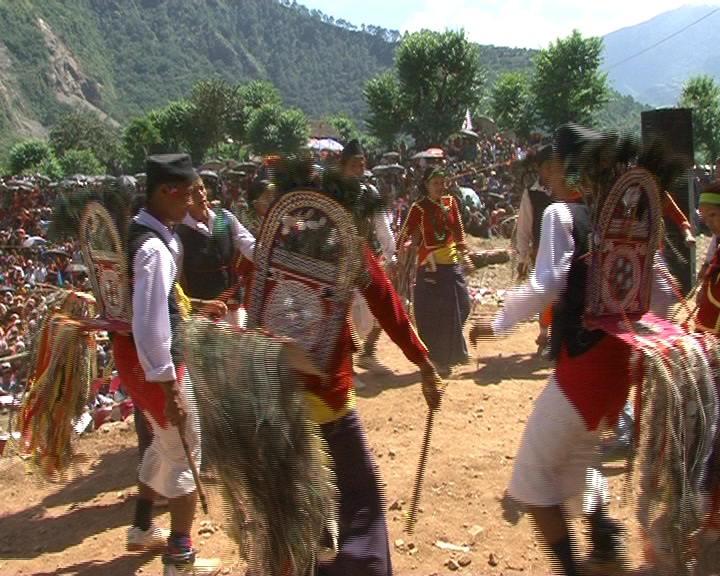 peacock dance